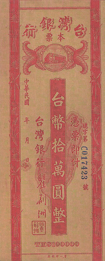 Bearer's check of 100000 Old Taiwan dollars. (These notes must be distinguished from the one's the Japanese Taiwan Ginkō issued under the same English name 1899-1945)